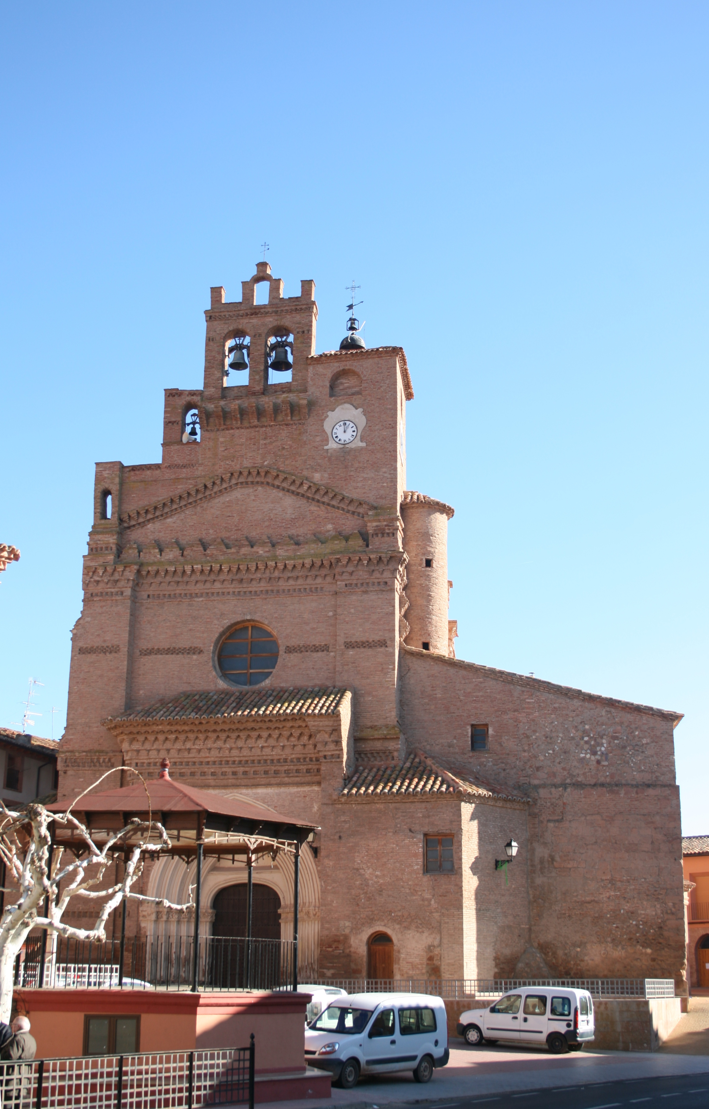 Church of San Pedro Apóstol, Villarroya de la Sierra, Spain